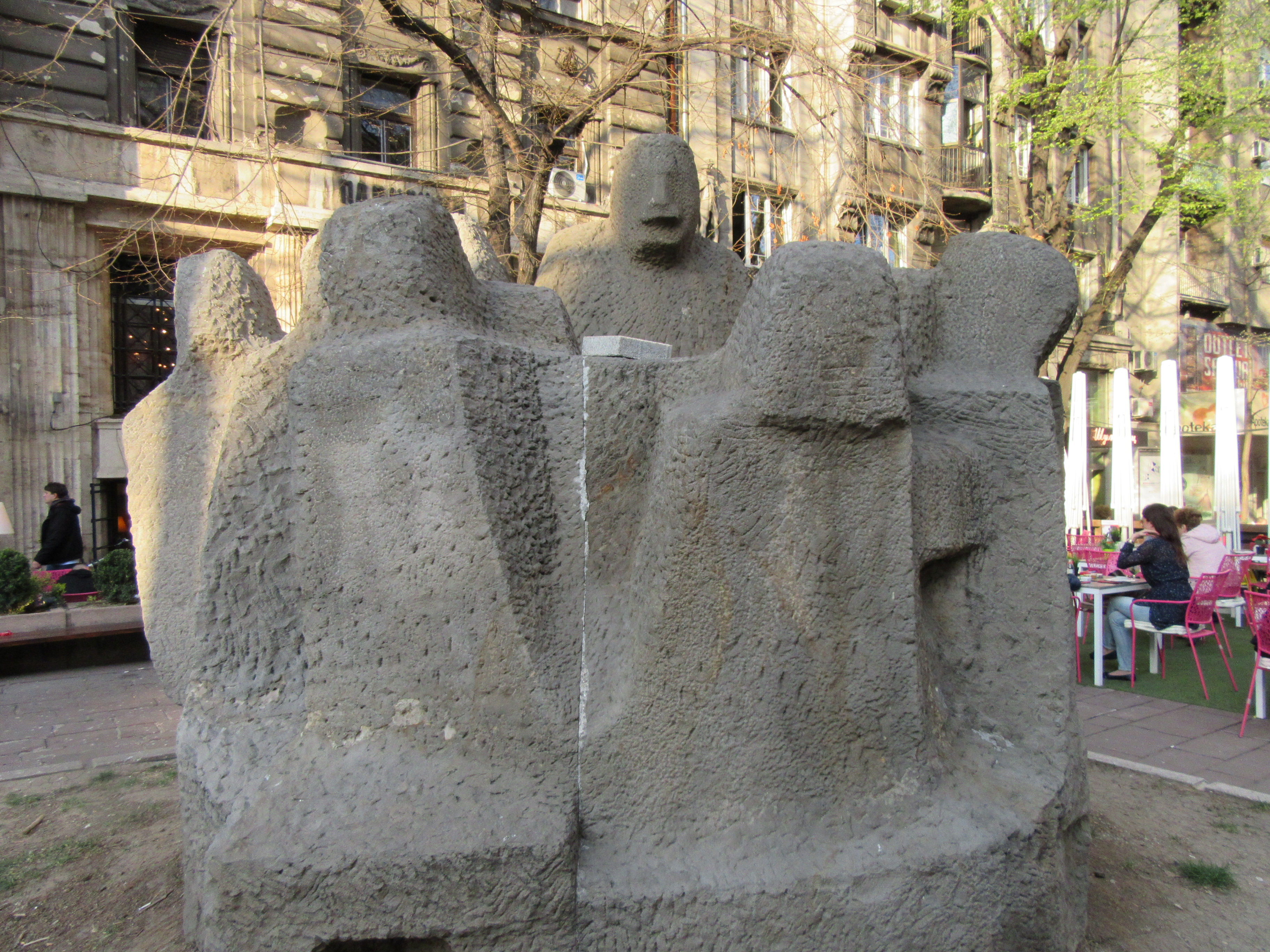 Monument Moše Pijade, Makedonska street, Belgrade, Serbia, 2019. Srpski (latinica): Spomenik Moše Pijade, Makedonska ulica, Beograd, Srbija, 2019.